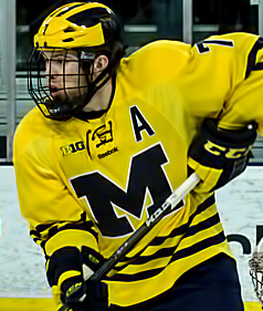 Michigan vs Ohio State, Feb. 22, 2015